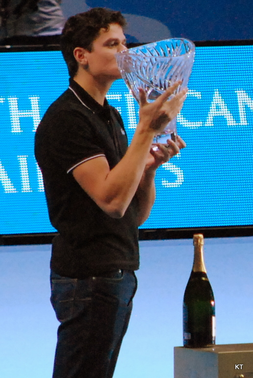 ATP World Tour Finals, the O2, London November 2011.